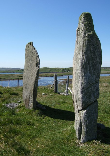 Callanish II